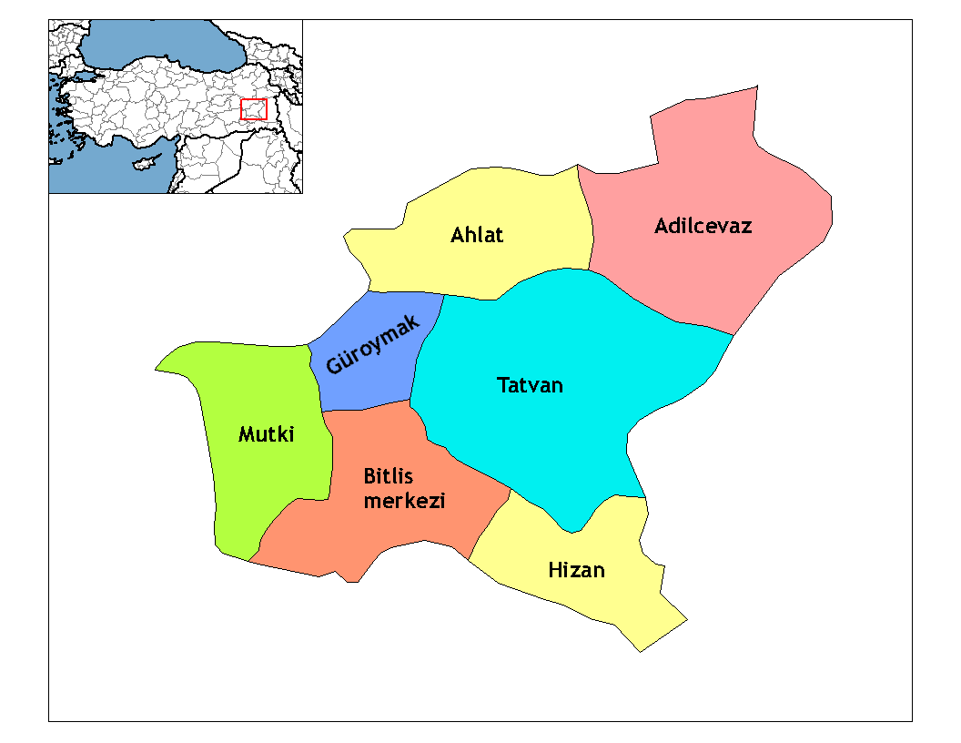 Map of the districts of Bitlis province in Turkey. Created by Rarelibra 18:56, 1 December 2006 (UTC) for public domain use, using MapInfo Professional v8.5 and various mapping resources. Edited by One Homo Sapiens Corrected text where İ,Ş,ı,ğ,or ş occurs in name. Source: [statoids-com]. Increased font size and enhanced color differences among adjacent districts.